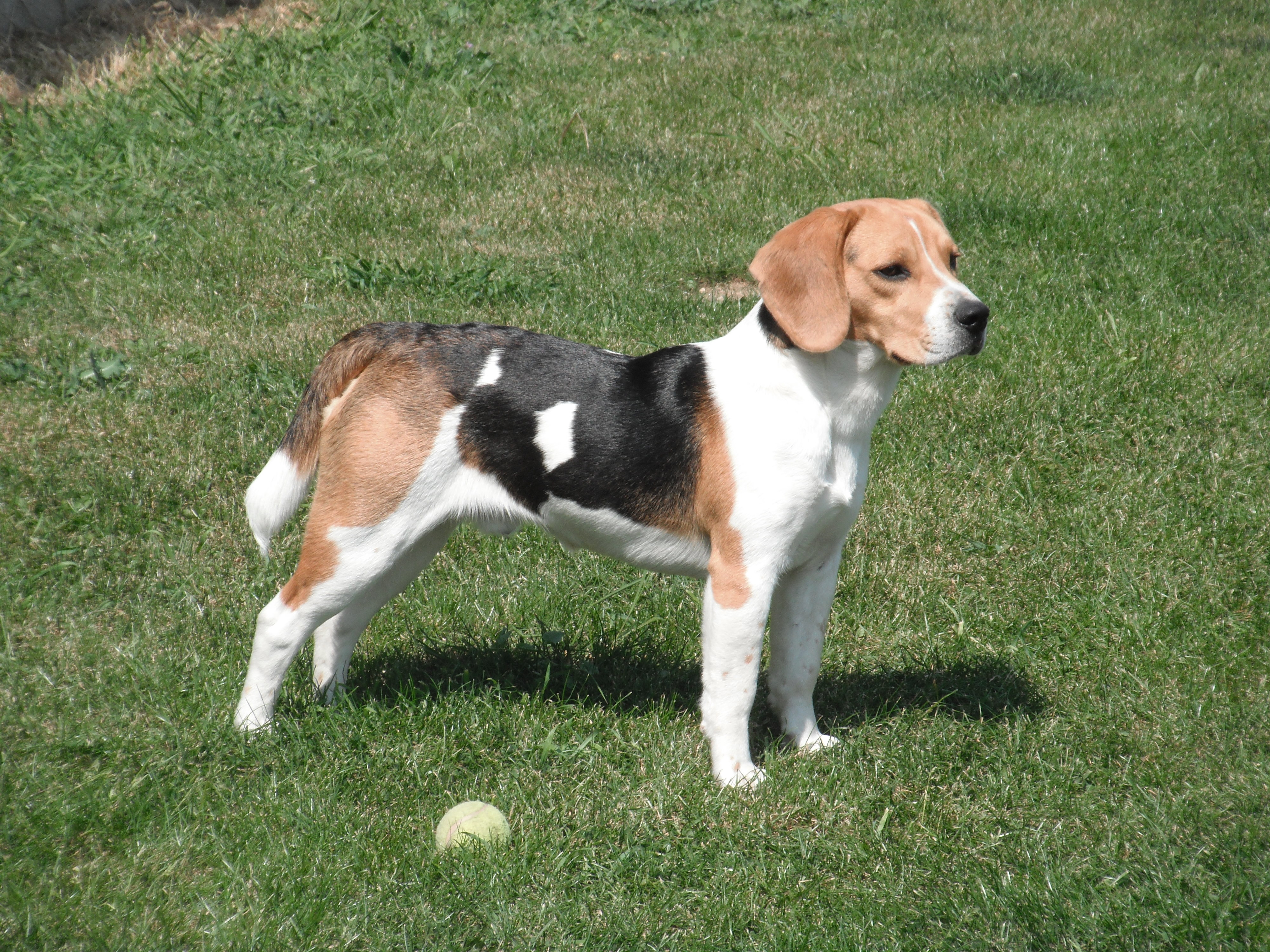 tricolor Beagle